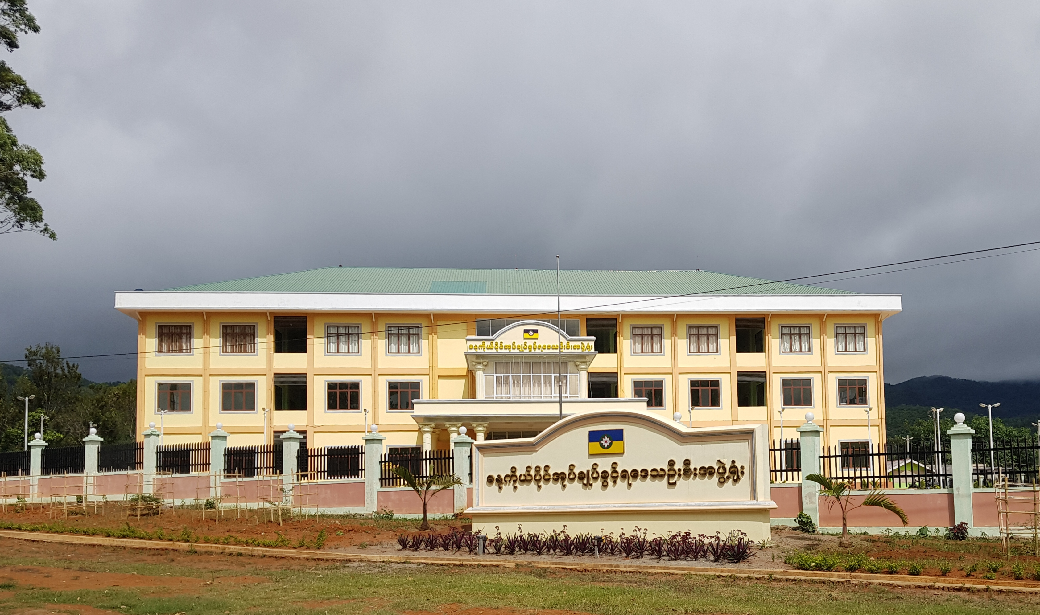 The headquarters of Danu Self Administered Zone Leading Team